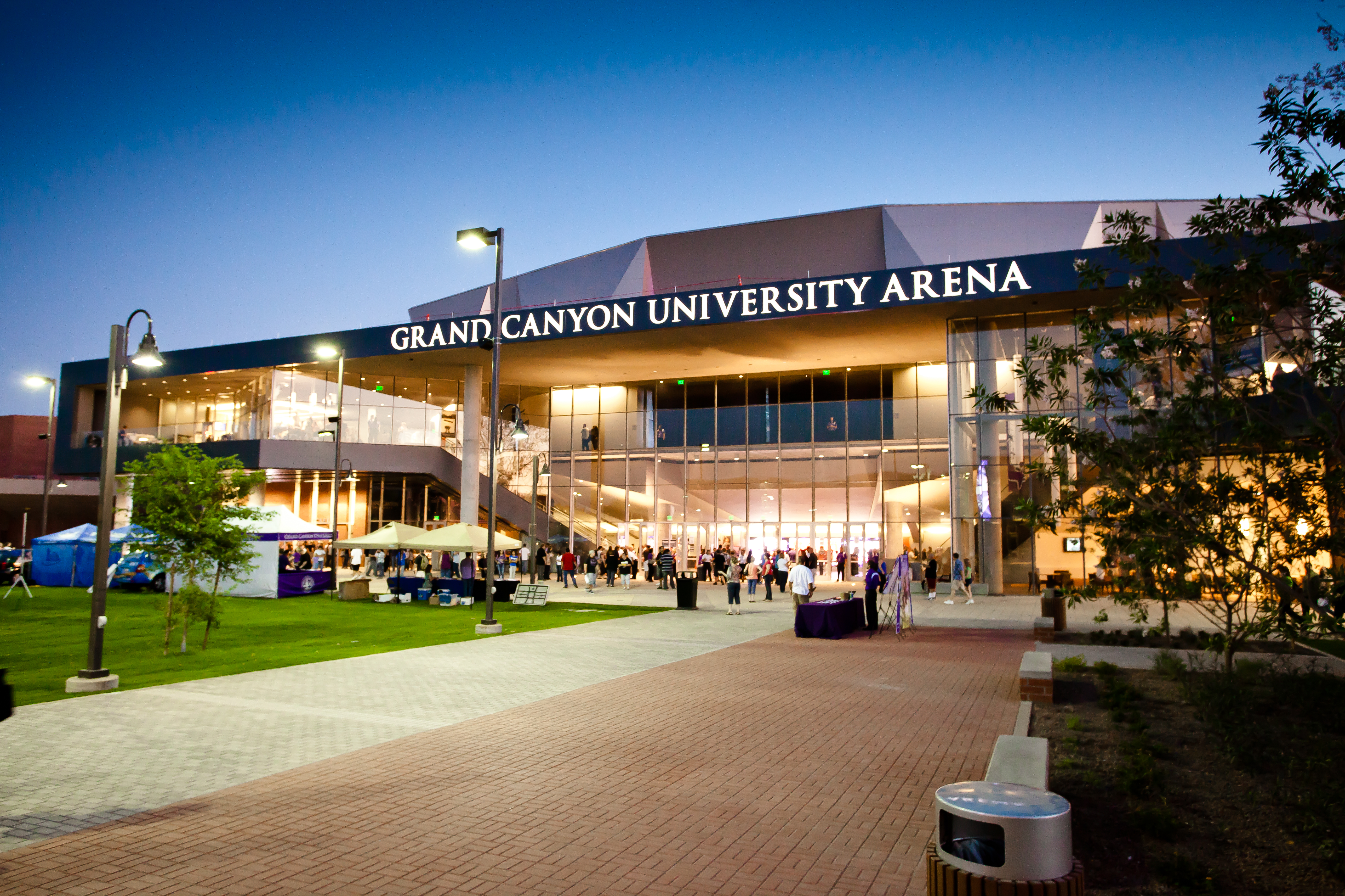 Grand Canyon University Arena at dusk.